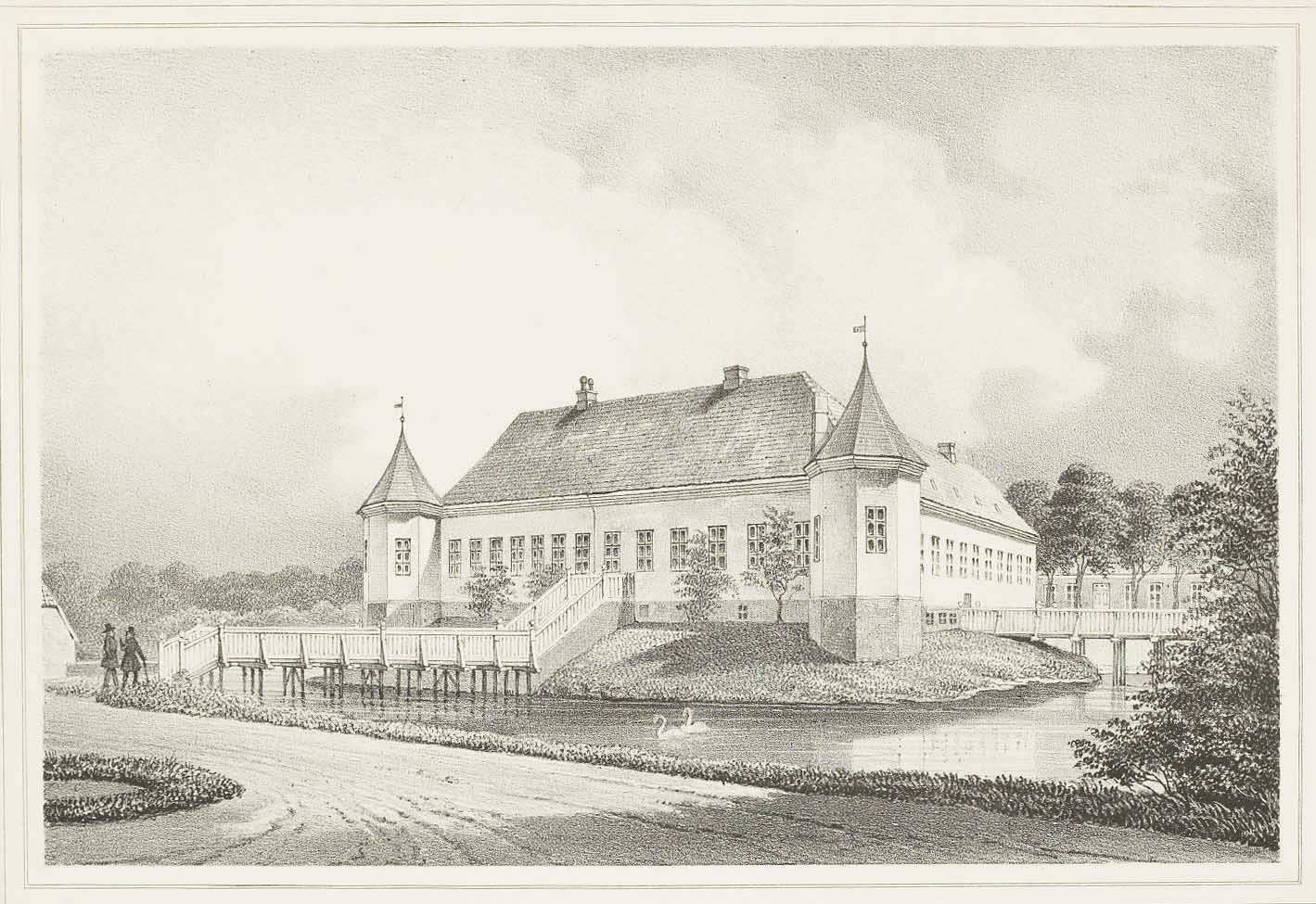 Lithograph of Frijsenborg from 1851, before the rebuilding. Printed by C.A. Reitzels Boghandel in Copenhagen. From Prospecter af danske Herregaarde.